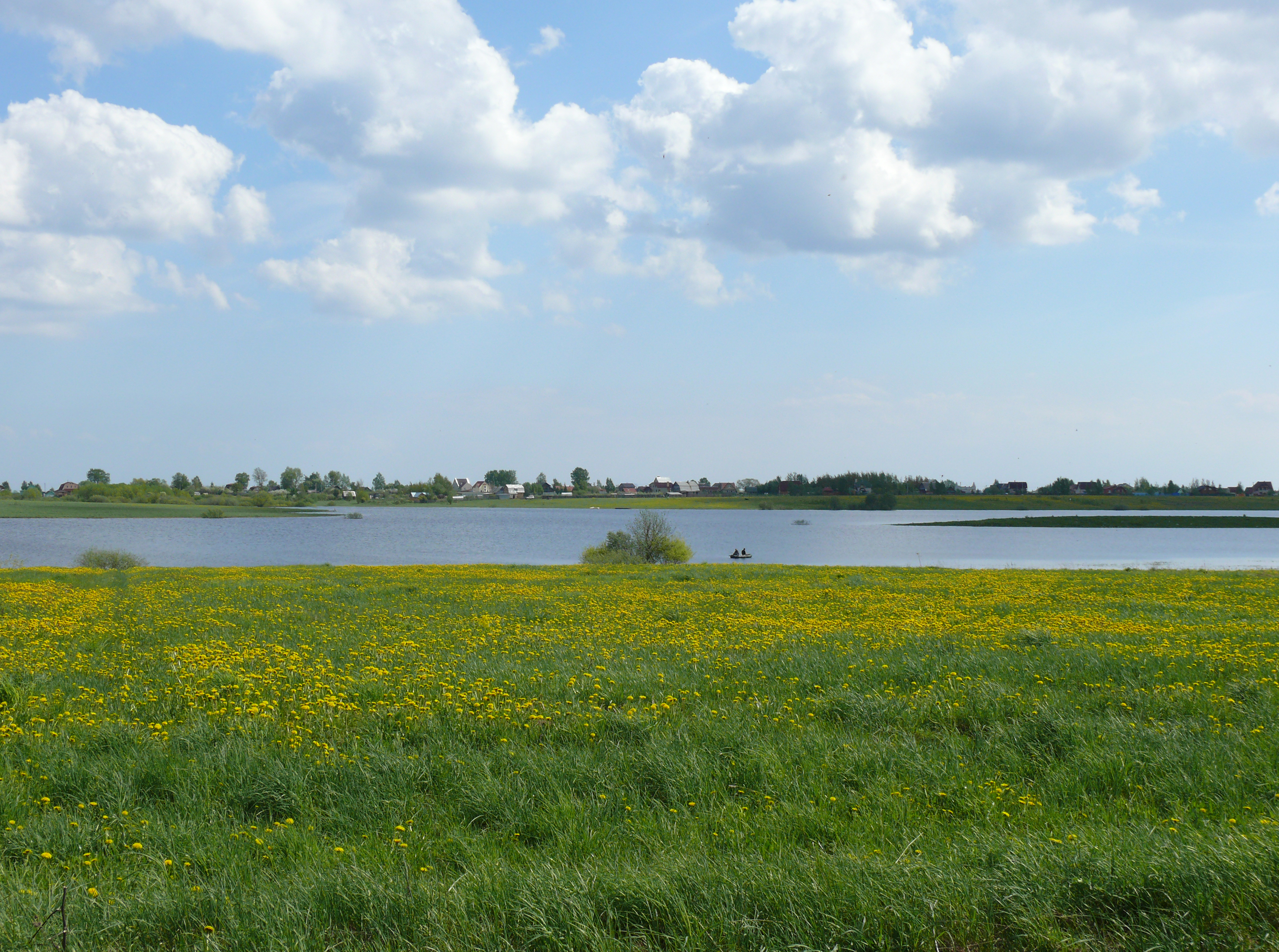 Troitsa village. Novgorodsky district, Novgorod oblast, Russia